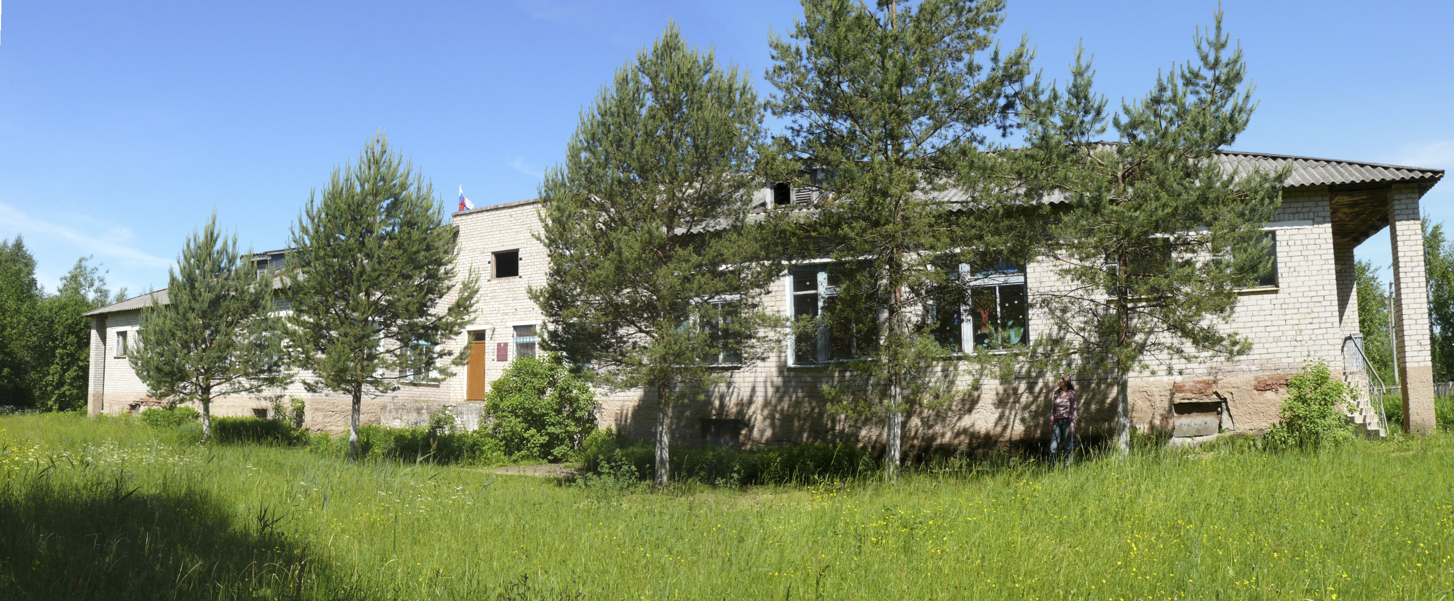 The Selsoviet building in Probuzhdenie village. Starorussky district, Novgorod oblast, Russia